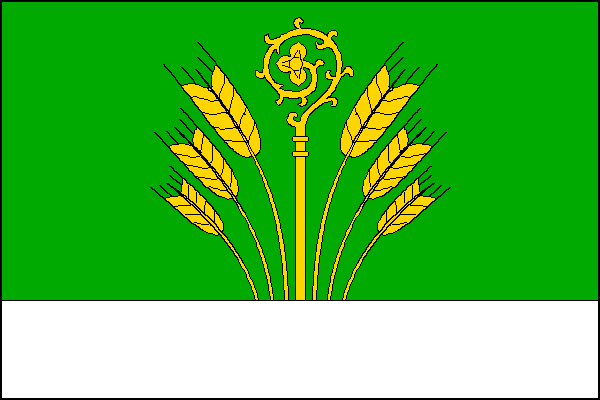 Municipal flag of Dolany village, Pardubice District, Czech Republic.